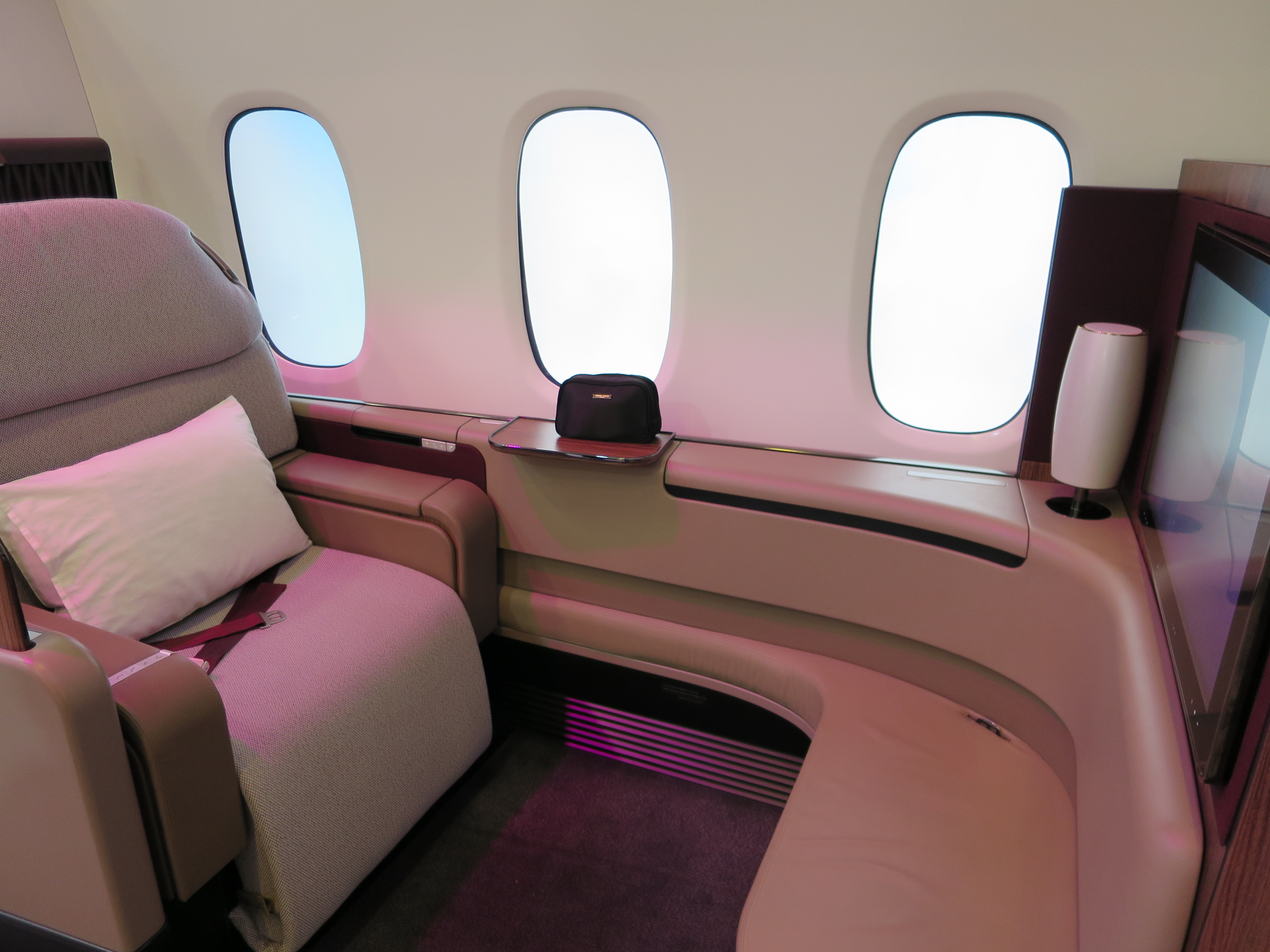 ITB Berlin 2016 The making of this document was supported by Wikimedia Polska Association, within Wikigrant no. WG 2016-9.